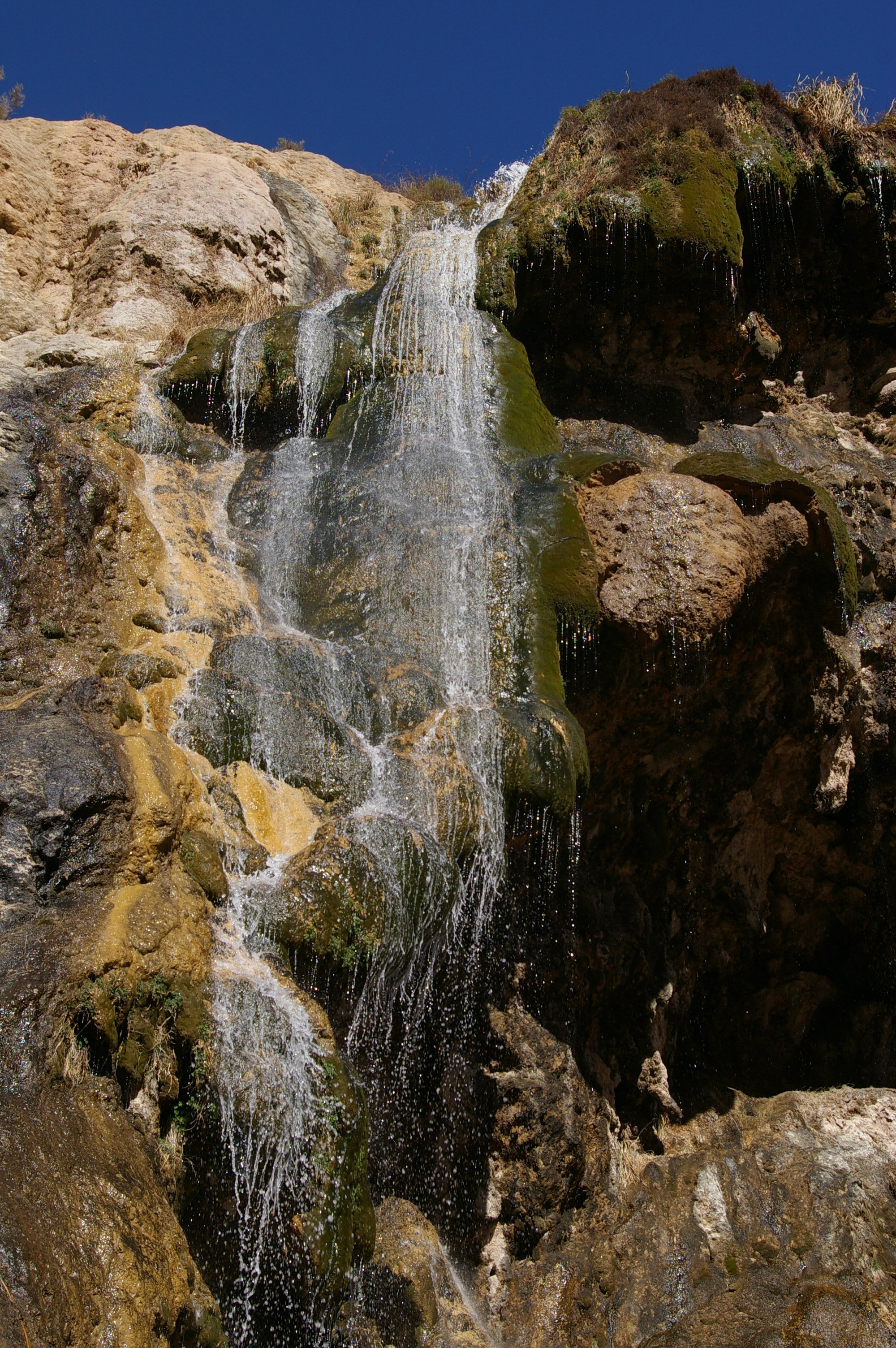 Sitting Bull Falls, Lincoln National Forest.